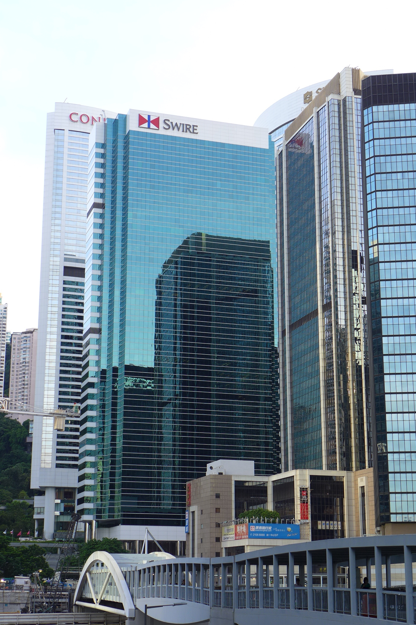 Pacific Place Tower 1